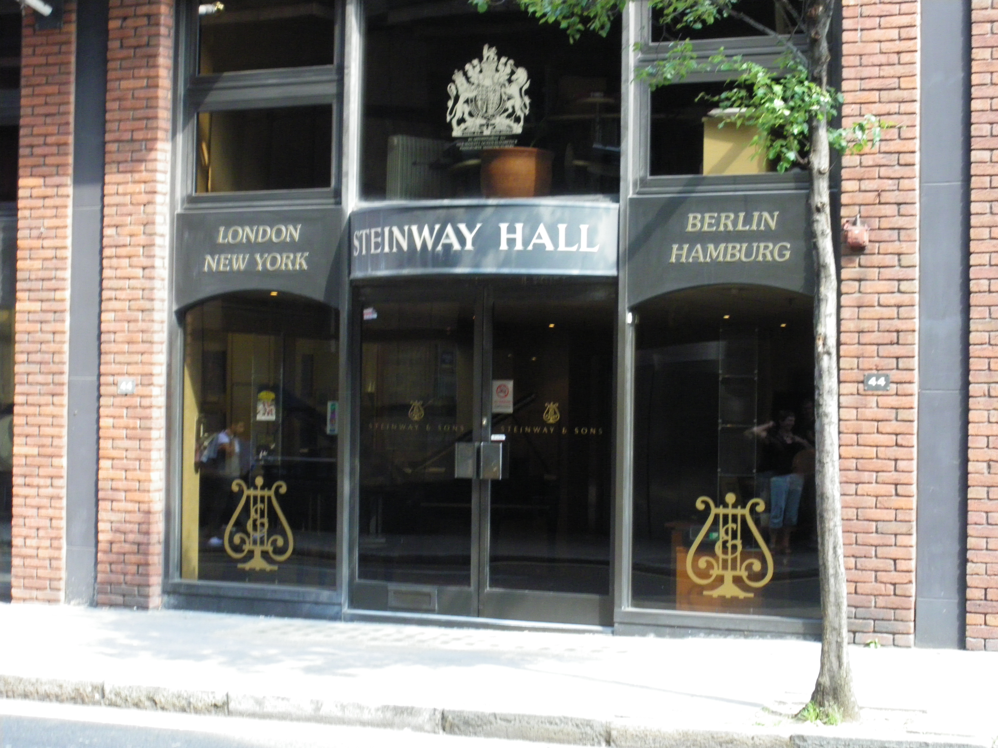 Steinway Hall in London (2008)